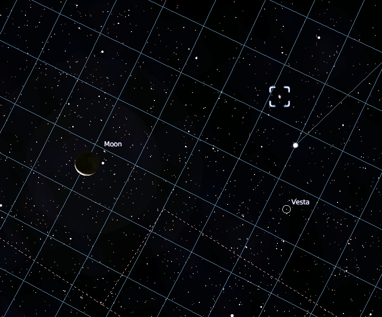 Sky at daybreak on 5 july 1054 where the famous supernova of 1054 was in loose conjunction with the Moon and may have been depicted by the so-called "Supernova Petroglyph" (see Image:Chaco canyon pueblo bonito petroglyphs.jpg)